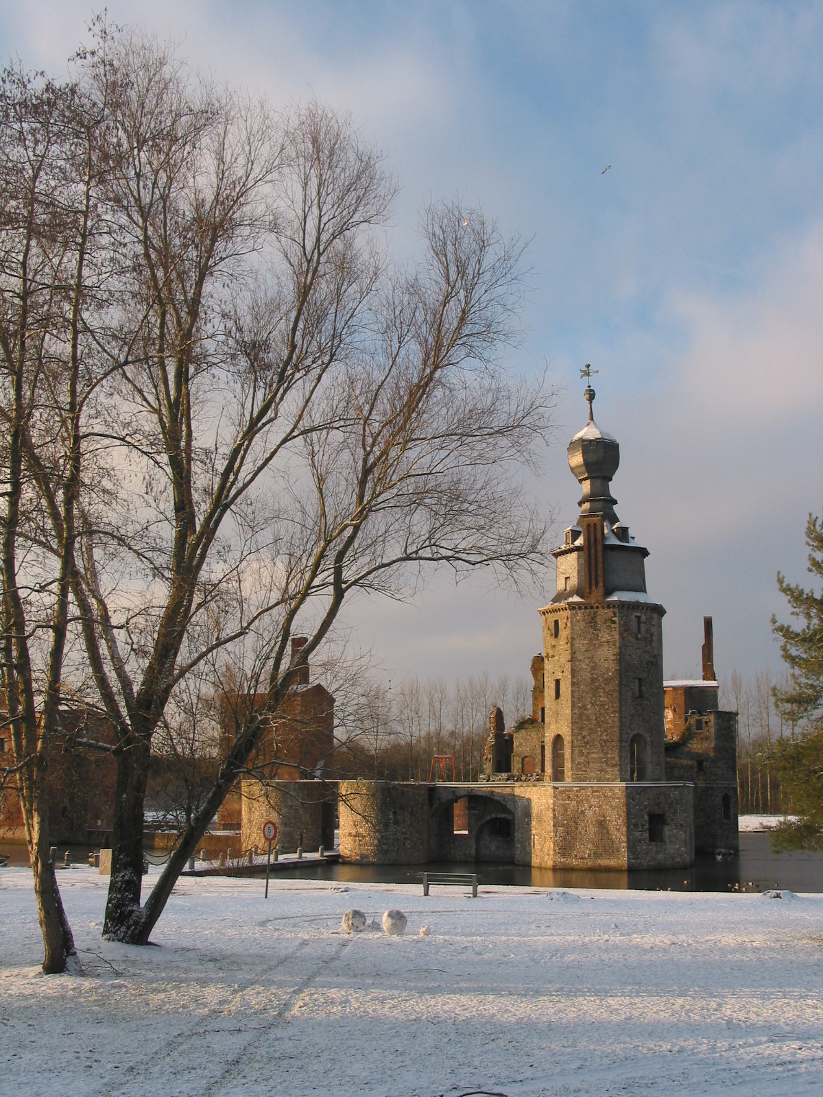 Havré (Belgium), castle ruins (XI/XVIIth centuries).